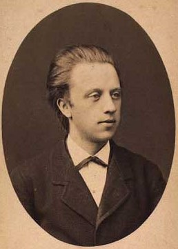 Alfred Sveistrup Poulsen (1854-1921), Danish bishop of Viborg